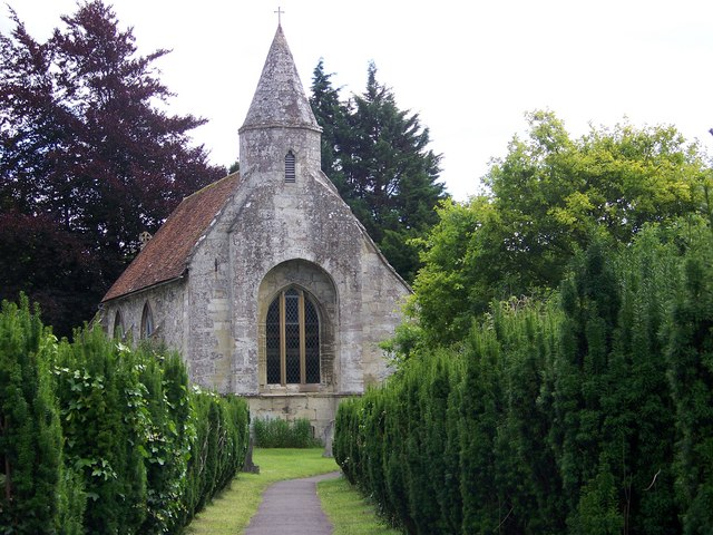 St Peter's Church, Fugglestone St Peter Due to its small size the church has never been converted to electricity, and today it still has and uses the original Victorian gas lighting.